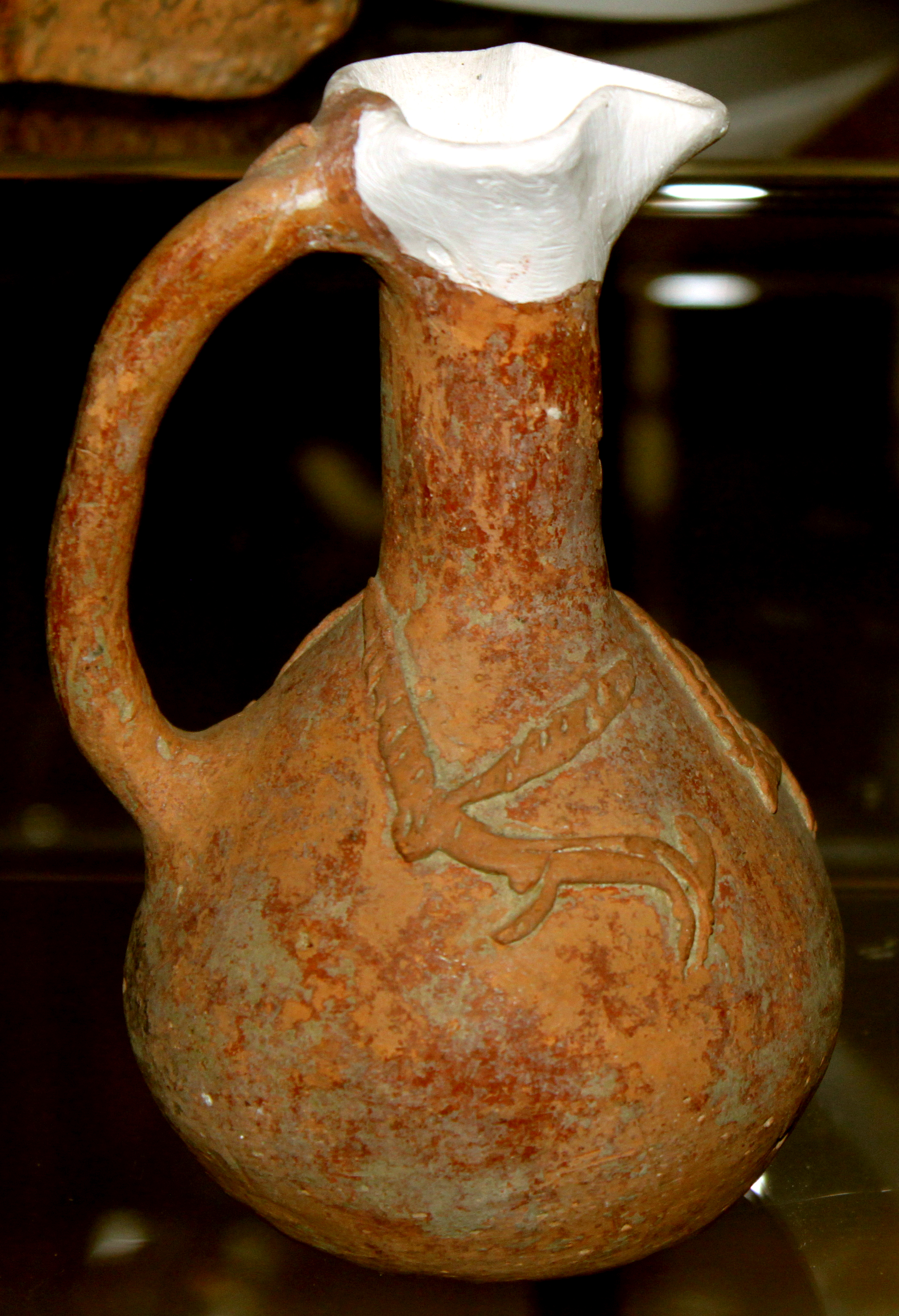 Heyvan təsvirli gil qab, Mingəçevir, Qafqaz Albaniyası